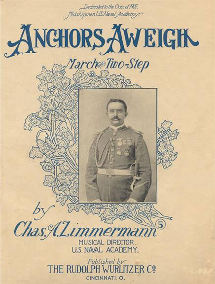 Sheet music cover, 1906